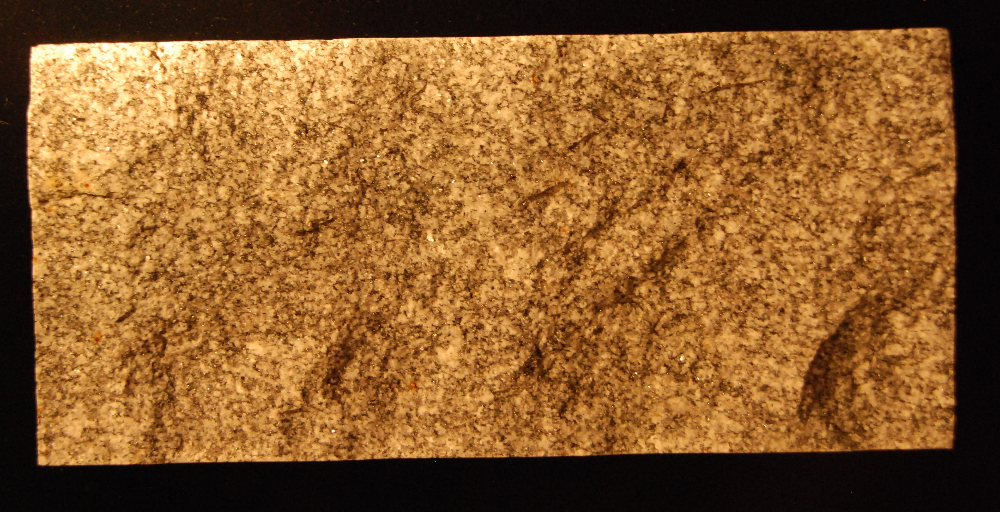 Pohorje tonalite (granodiorite). Natural History Museum of Slovenia.